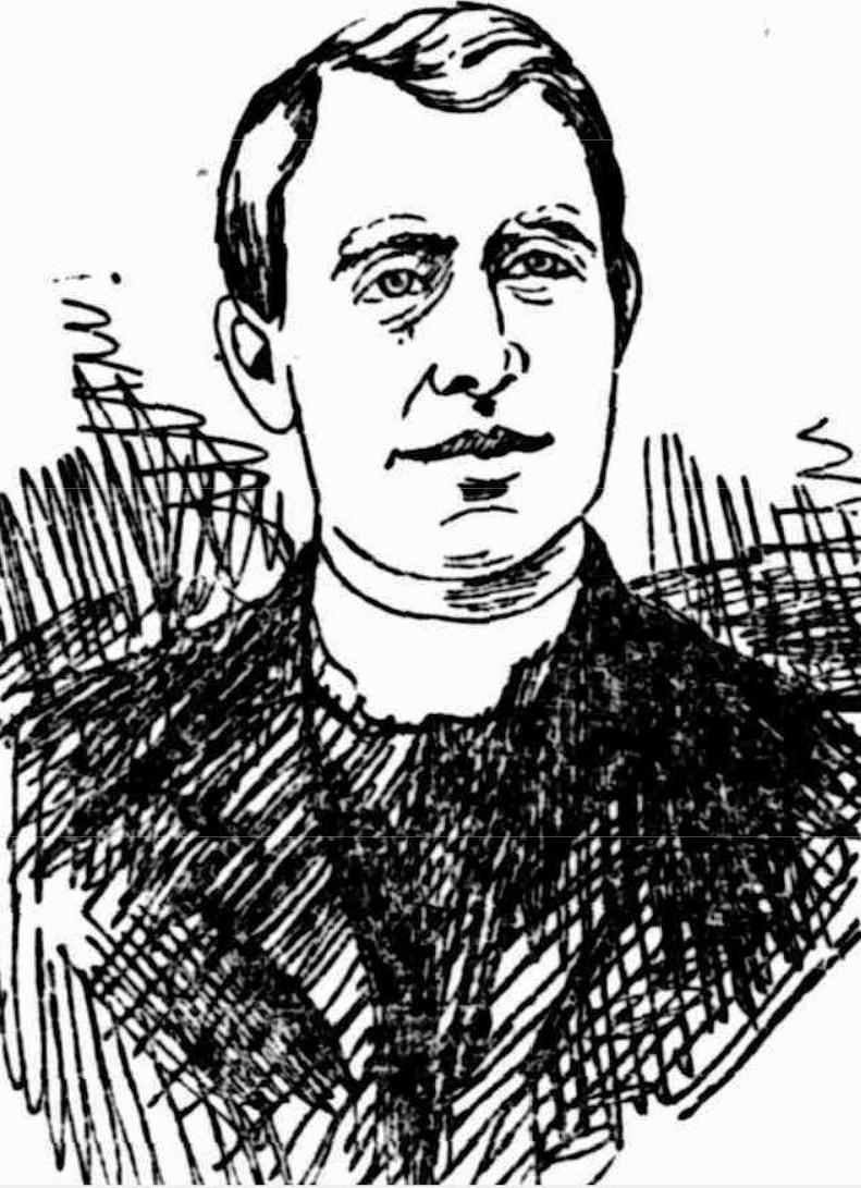 Head and shoulders drawing of the Rev. Hornabrook as a young man